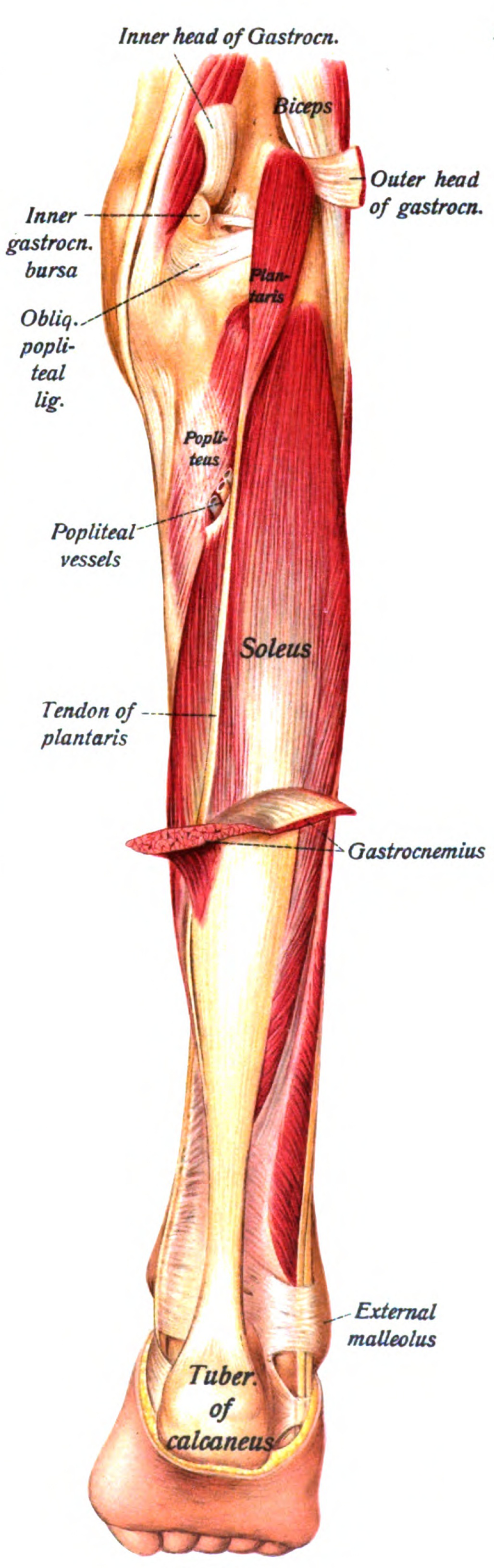 An anatomical illustration from the 1909 edition of Sobotta's Atlas and Text-book of Human Anatomy with English terminology.